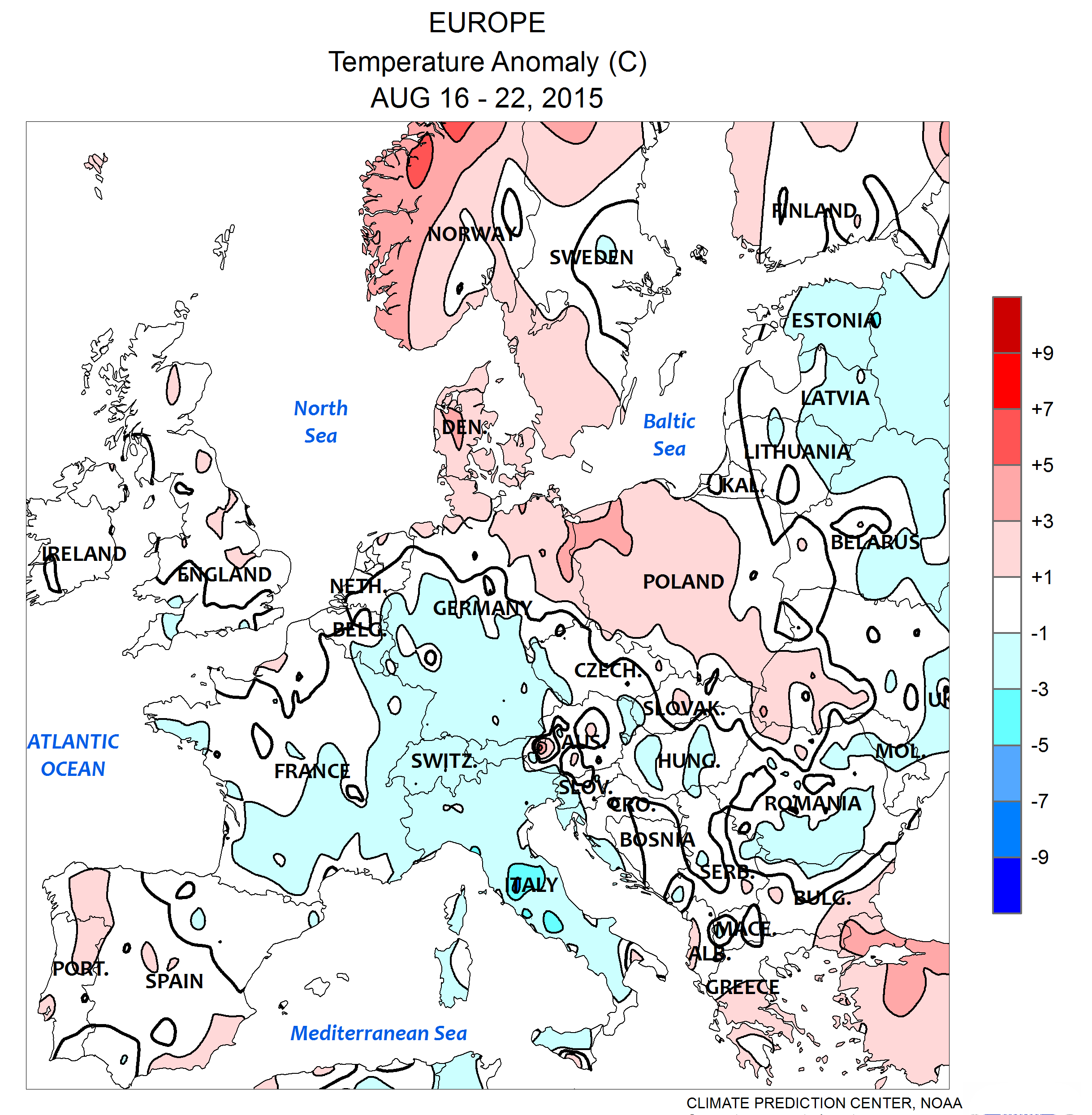 Europe: Temperature anomaly August 16 - 22, 2015, computer generated contours, based on preliminary data